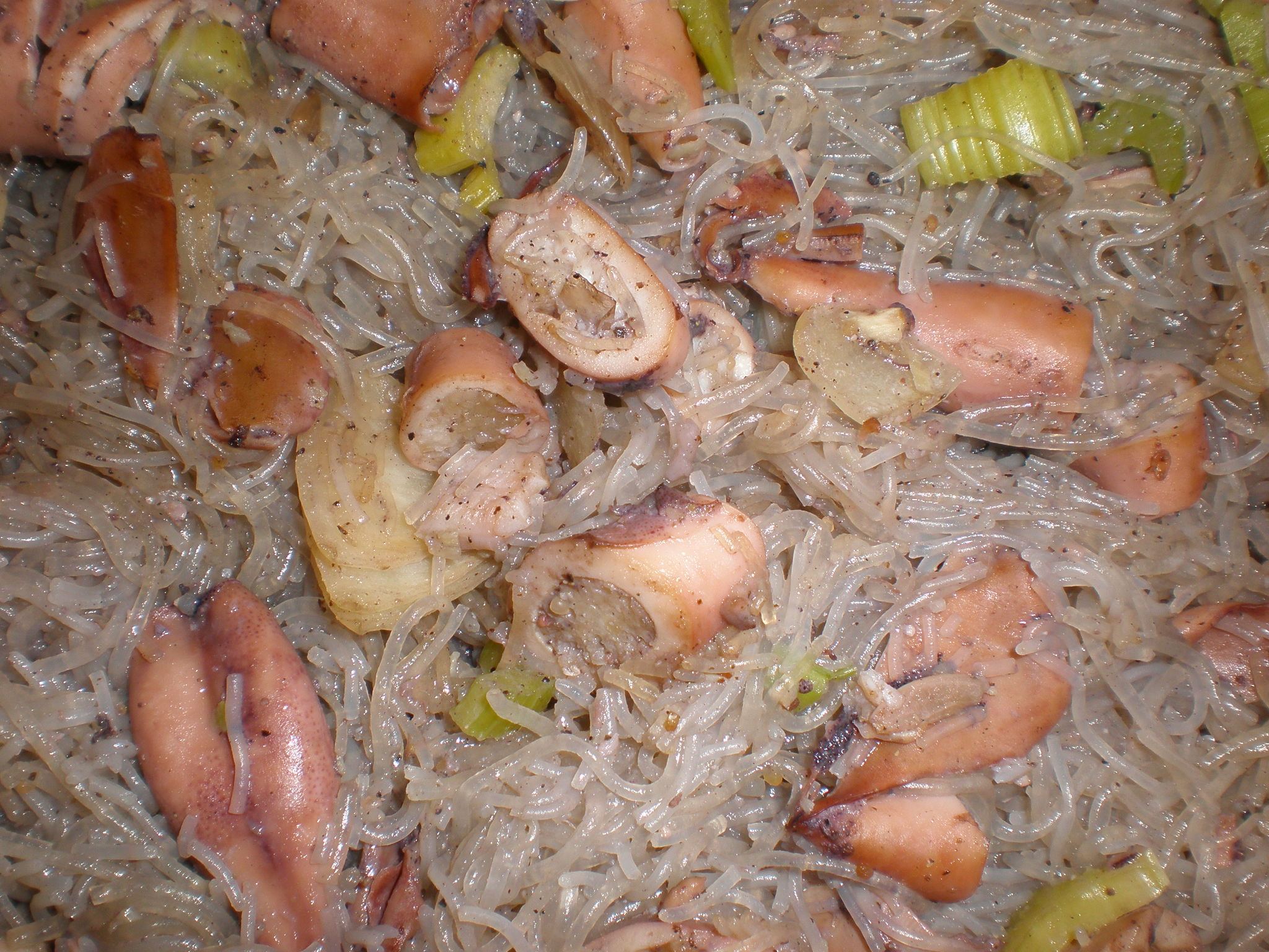 Pancit with squid